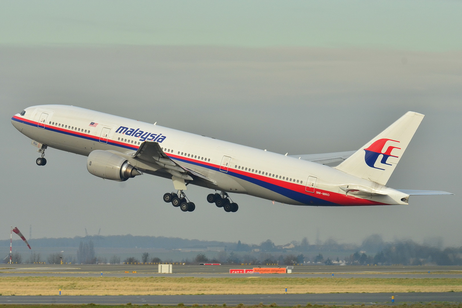 Malaysia Airlines Boeing 777-200ER (9M-MRO) taking off at Roissy-Charles de Gaulle Airport (LFPG) in France.